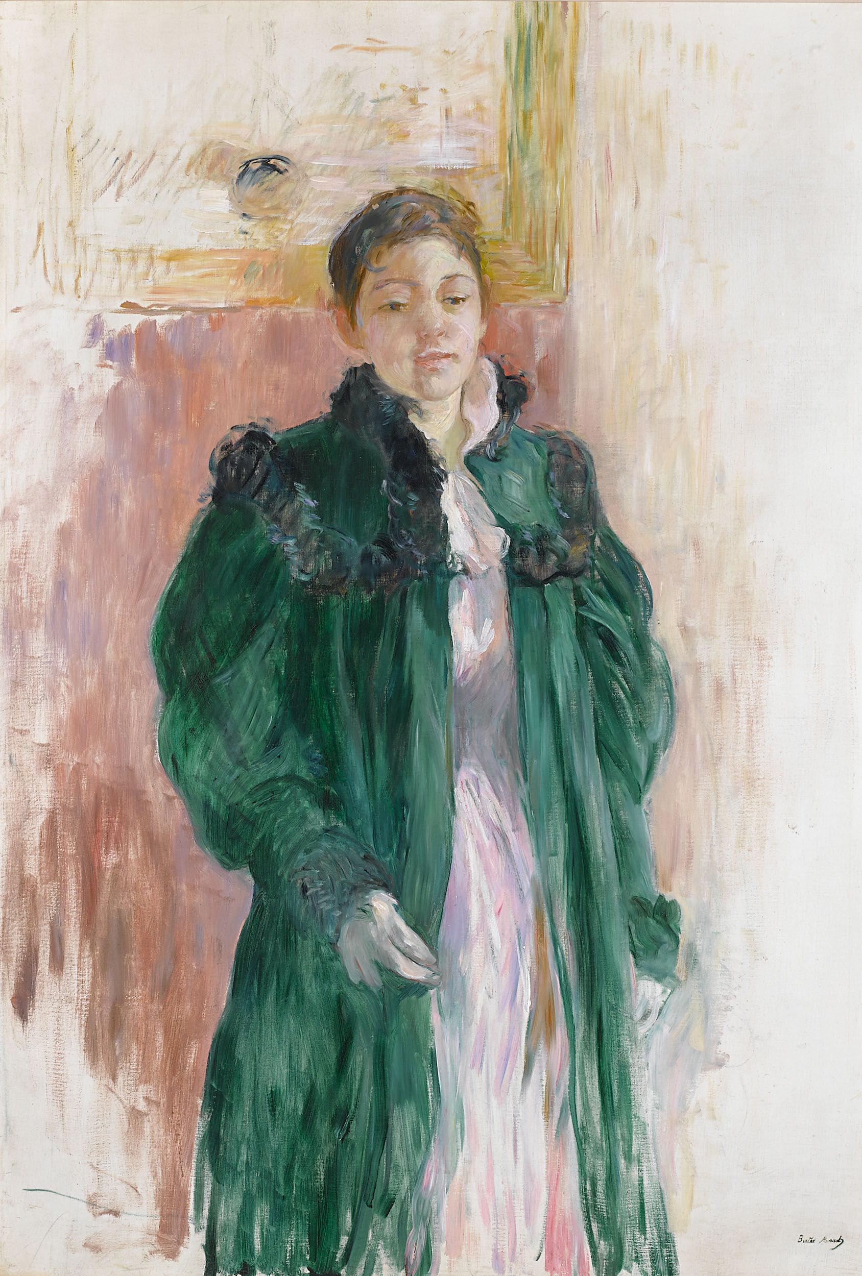 Jeune Fille au Manteau Vert by Berthe Morisot. Oil on canvas, circa 1894